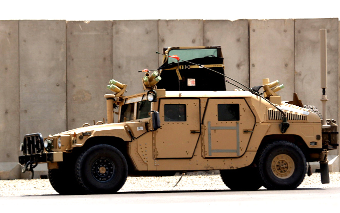 An M1114 HMMWV with Kevlar Blanket wrapped around turret returns to Camp Adder, Iraq after a Convoy Logistic Patrol (CLP)